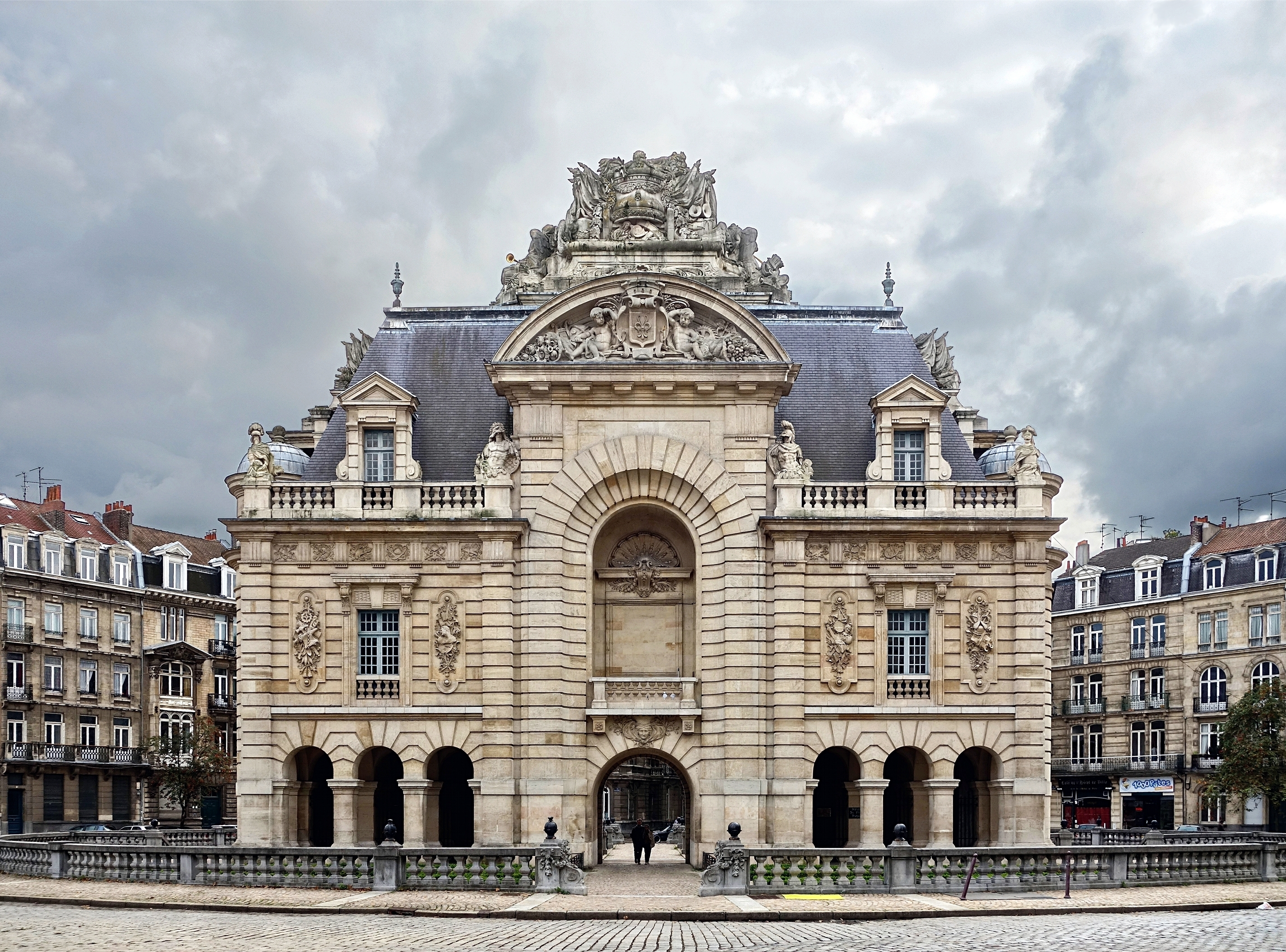 Porte de Paris in Lille, - France - Nord (seen from inside the city).